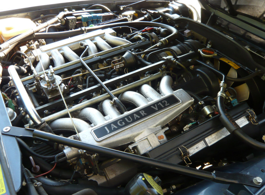 Jaguar 5.3 Liter V12 Engine in an 'early' Facelift-XJS